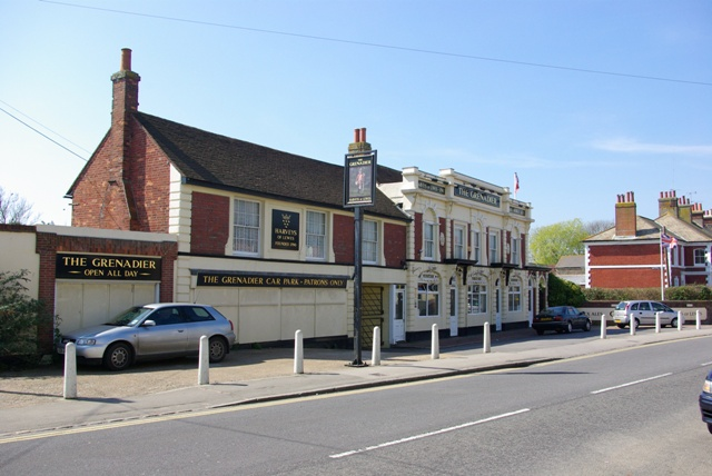 The Grenadier, Hailsham On High Street. "Information about this pub is incomplete as it has not been visited by a member of the team". However, rated 4/10 by 3 users.